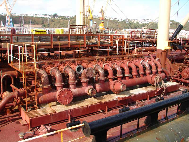 The Moroccan chemical tanker Al Farabi, carrying molasses, in Brest. IMO Number: 8000123 MMSI Number: 242031000 Callsign: CNCO Length: 172 m Beam: 25 m